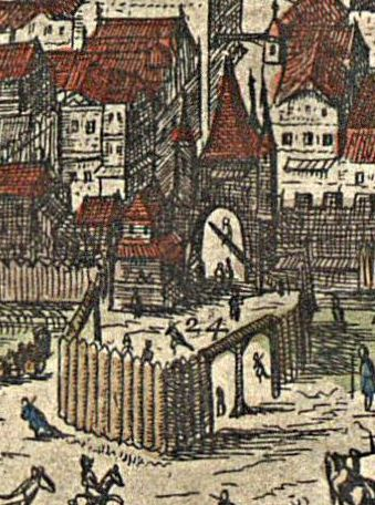 Red Tower, cropped from: Bird's-eye view of Vienna from North. Second, unmodified edition of 1640, based on the first edition of 1609. Title: VIENNA AVSTRIAE Wienn In Oesterreich.